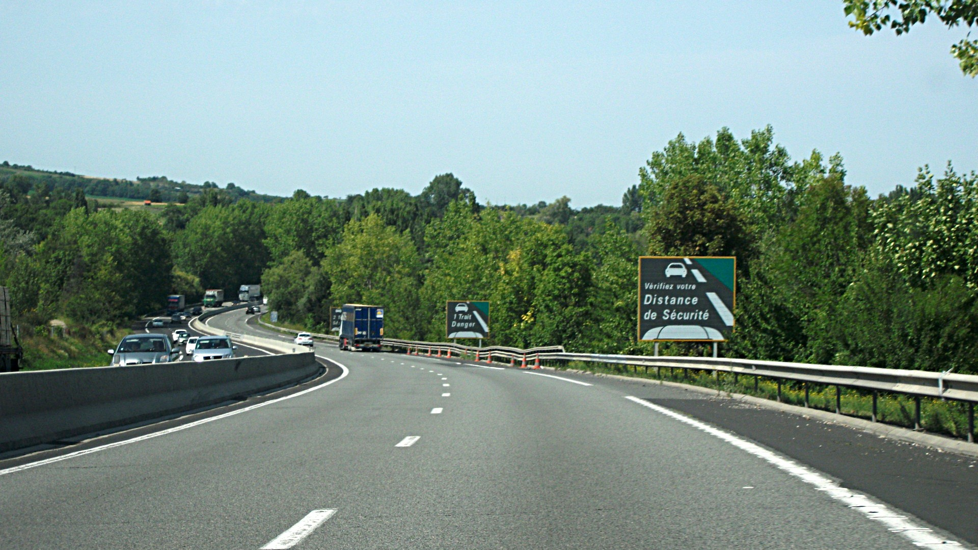 French security sign SR2a "Check your safe distance" (Vérifiez votre Distance de Sécurité). Found on A75 autoroute in southern Clermont-Ferrand.